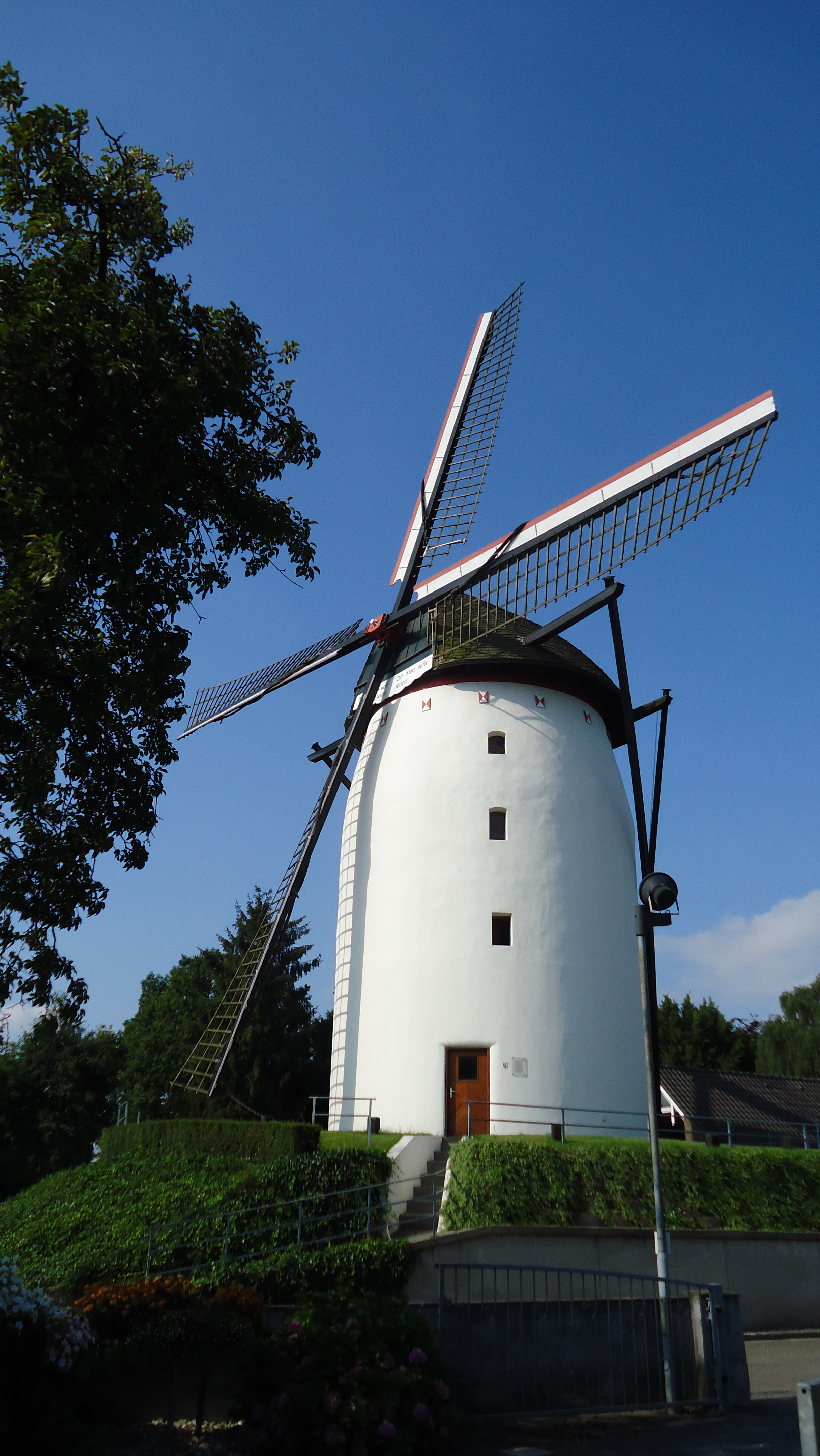 This is a photograph of an architectural monument., no. GE10053